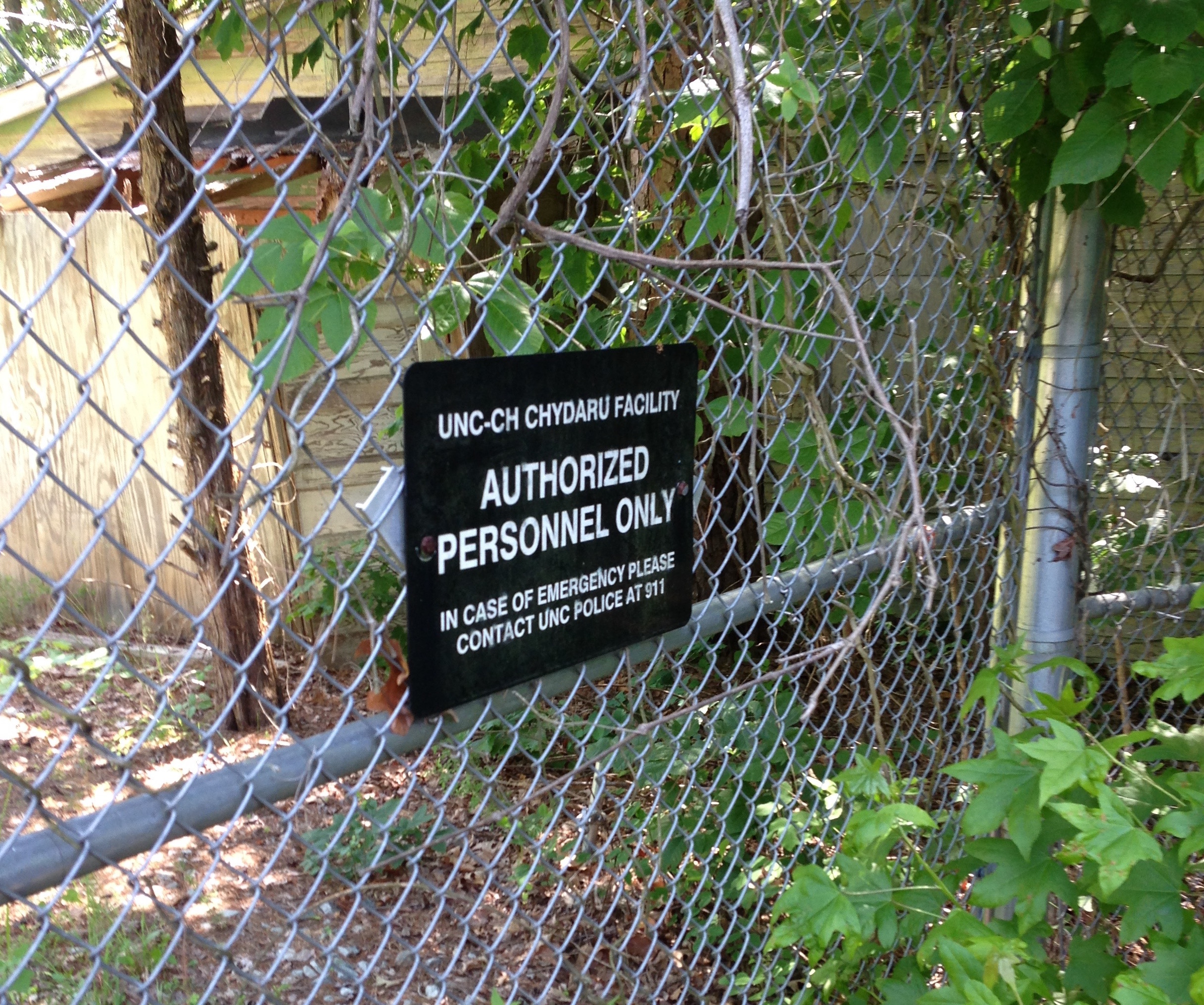 sign located on outside of fence on chydaru